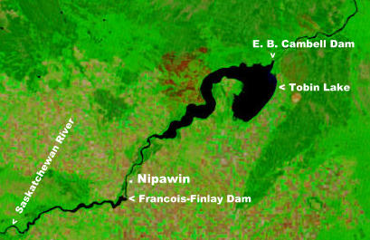 Portion of Nasa satellite image showing Tobin Lake in Saskatchewan Canada (Captions have been added by Kayoty)